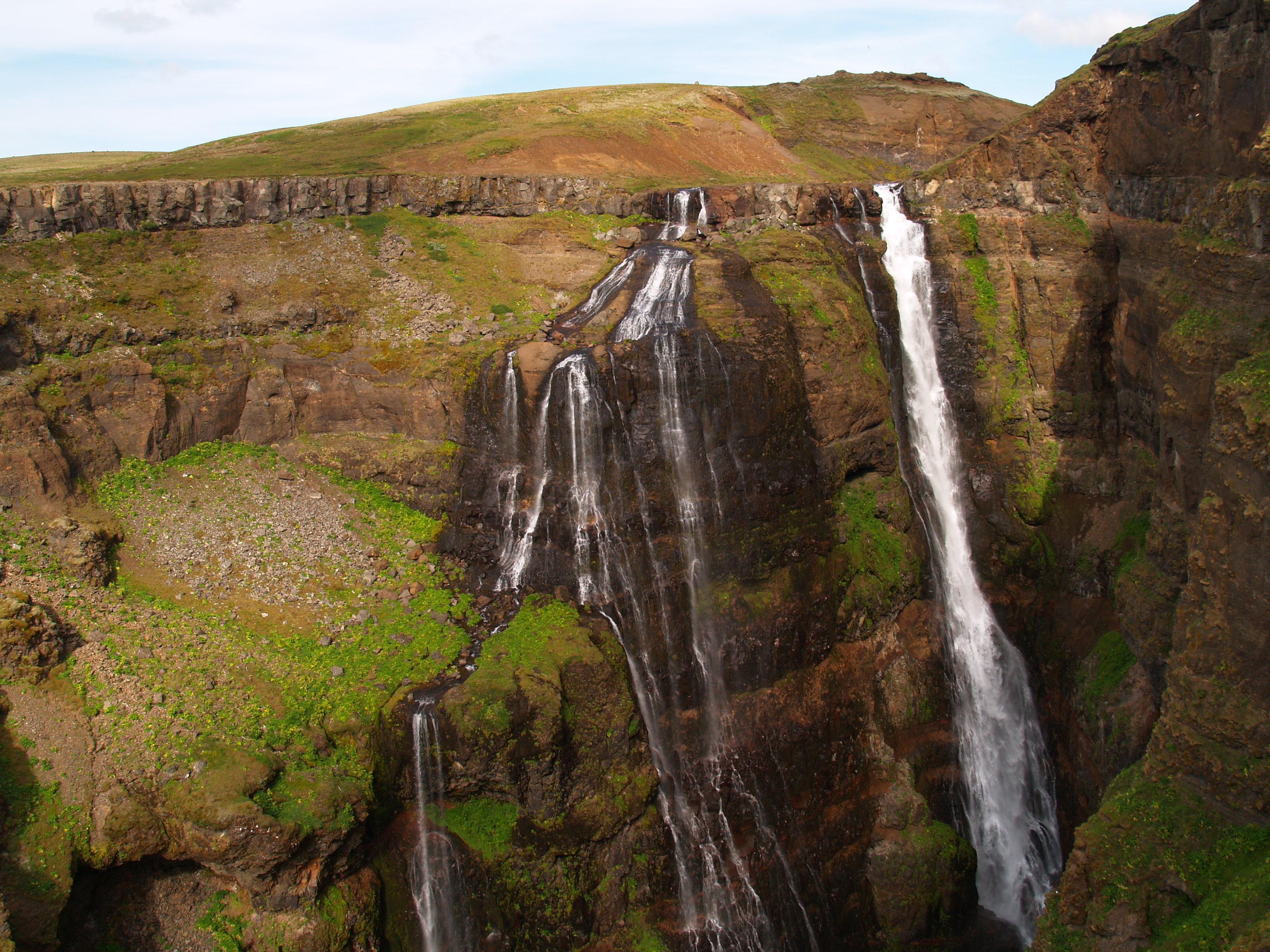 Glymur, long regarded as the tallest waterfall in Iceland.